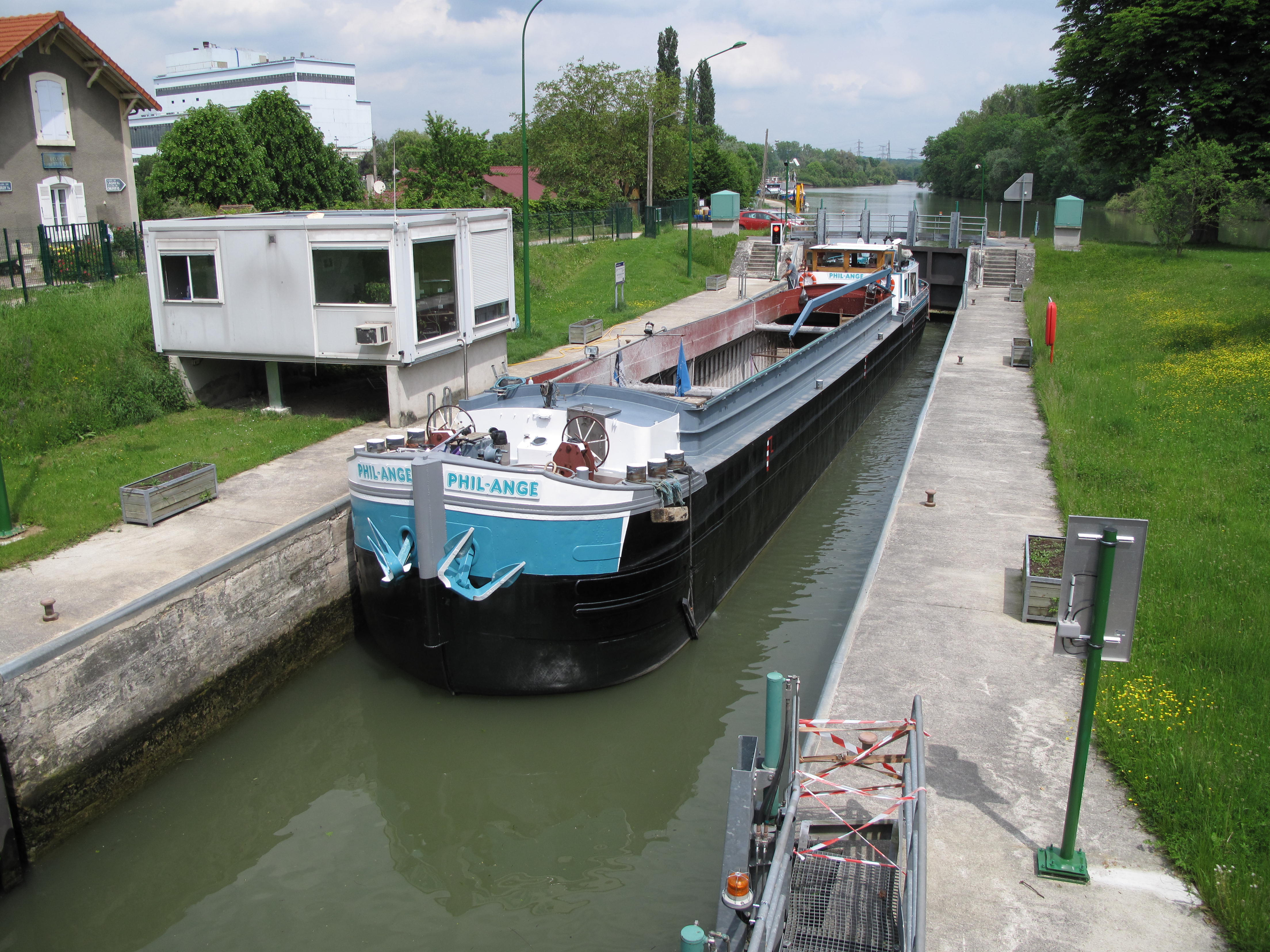 Canal-lock of Vaires-sur-Marne on the canal de Chelles, France